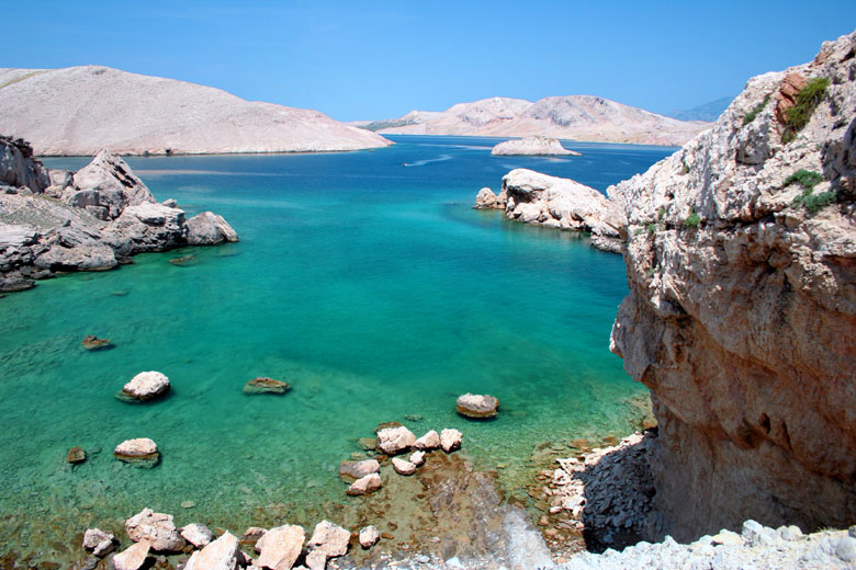 Boat trip around pag island